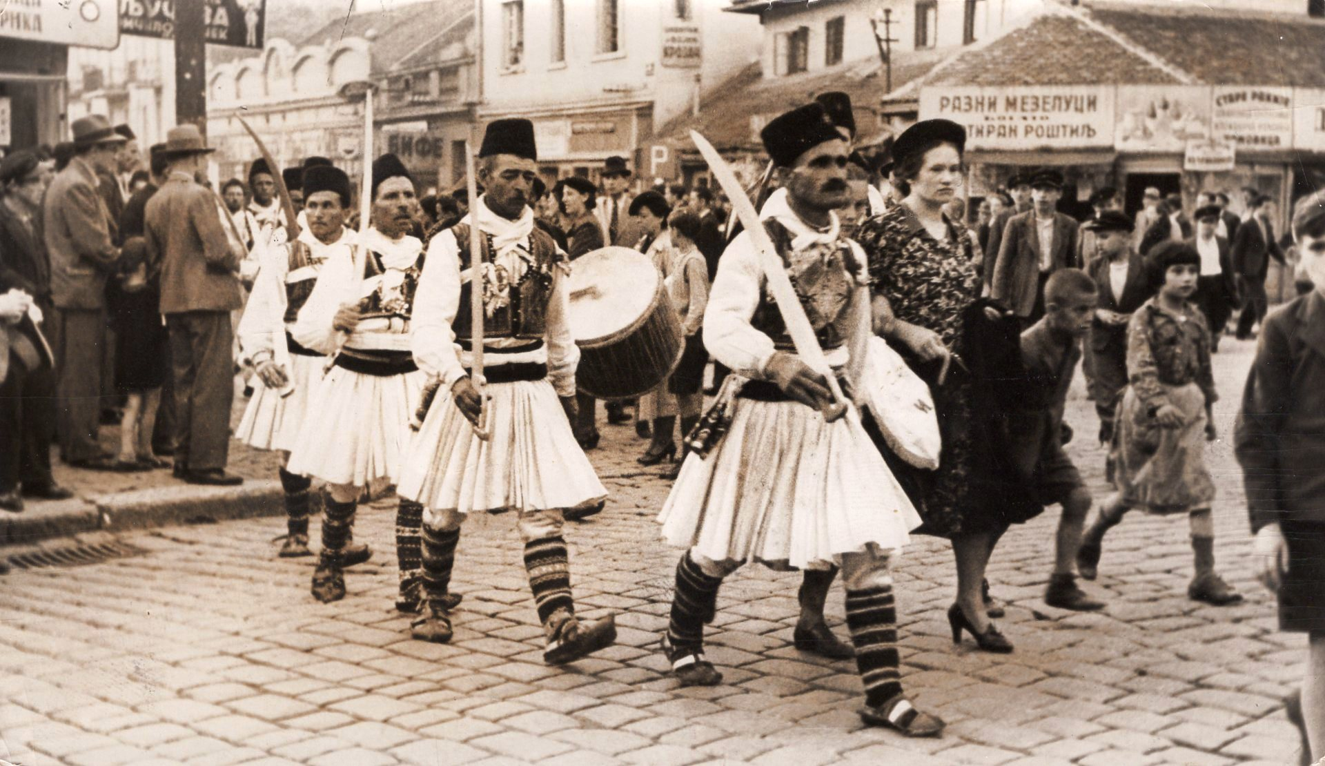 Rusalii in Skopje, photo from 1930s This media file is produced by Wikipedian in Residence in Category:Wikipedian in Residence at DARM in 2016.